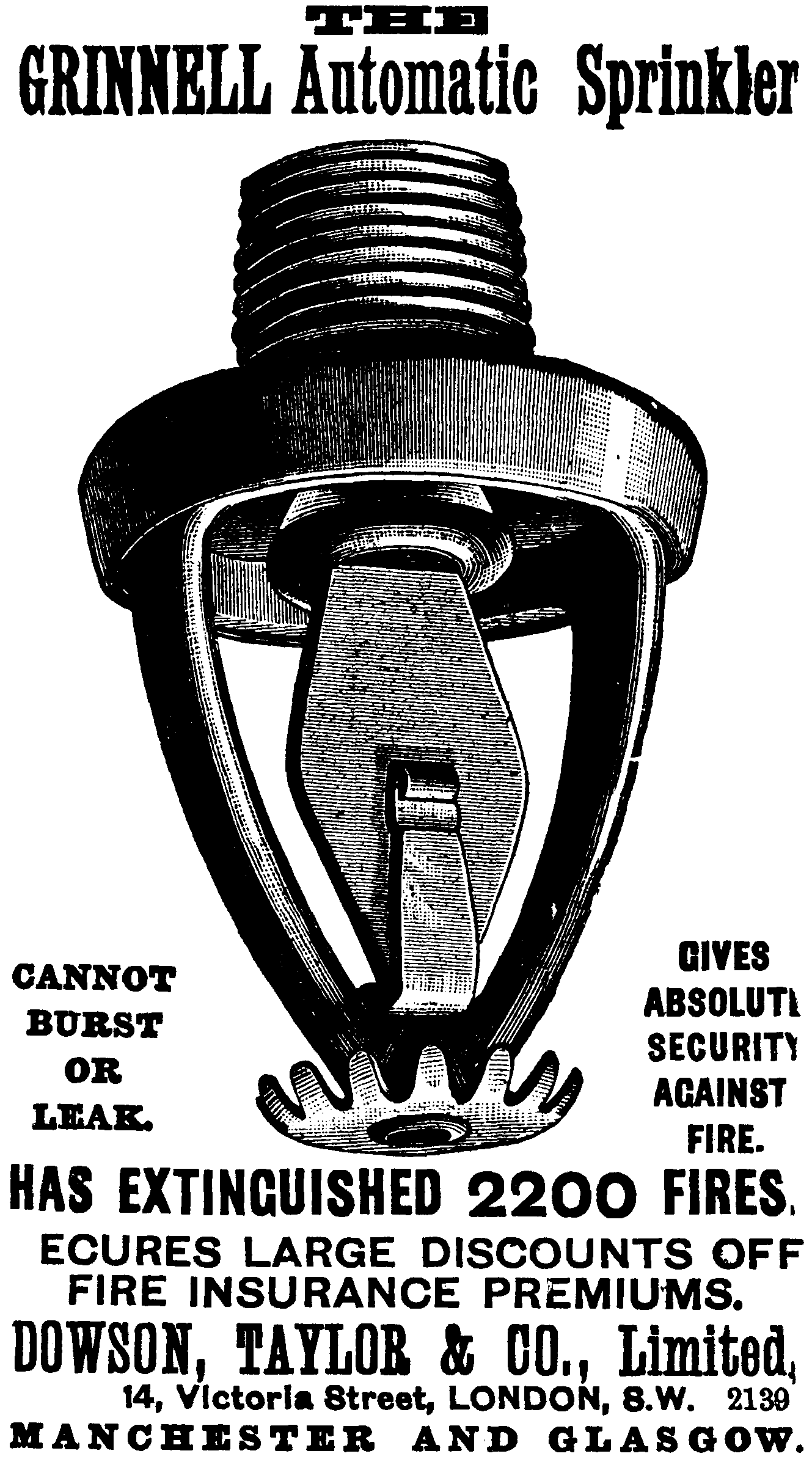 An advertisement by Dowson, Taylor and Co limited for the Grinnell automatic sprinkler. From Engineering, Vol: LXIII No: 1623 February 5th 1897.